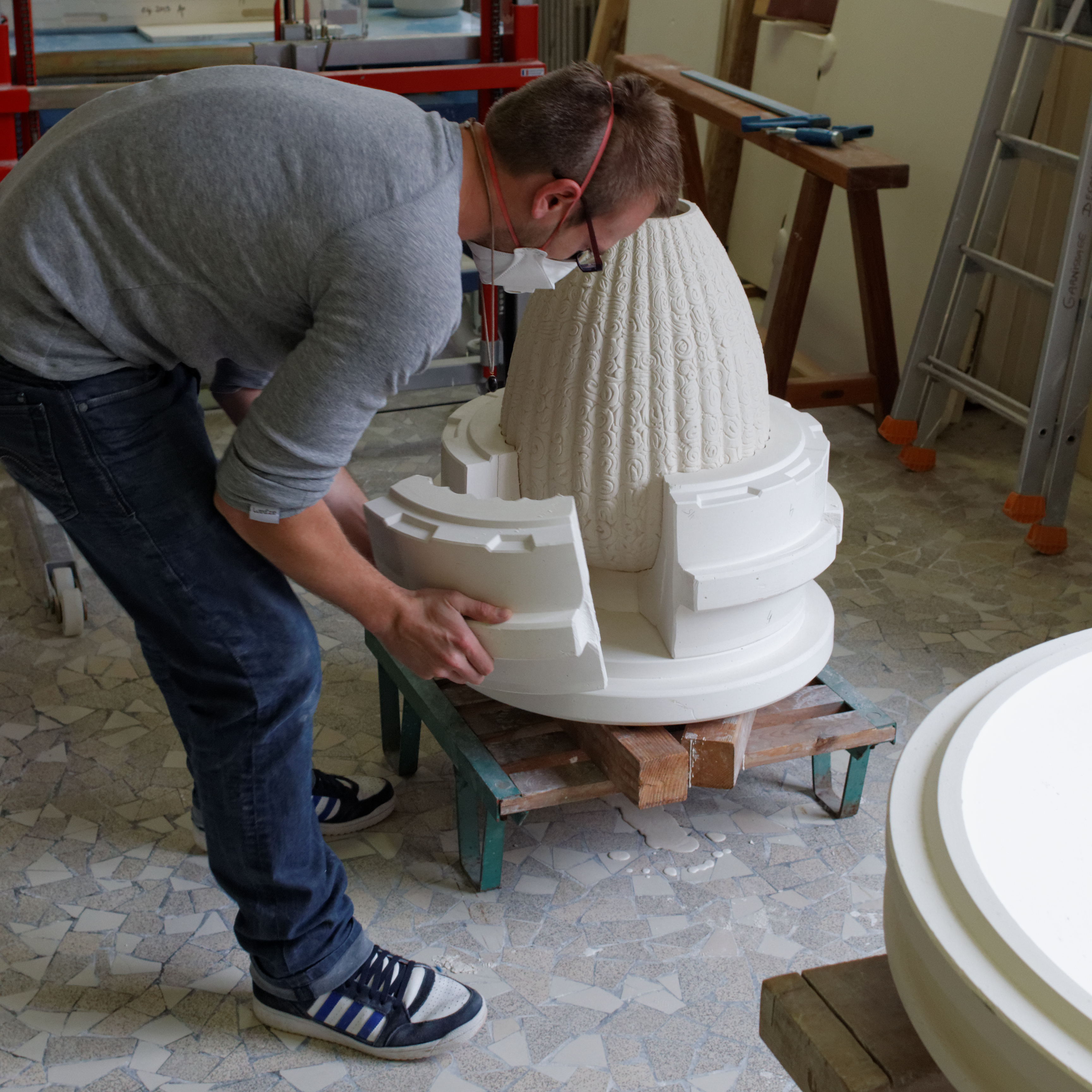 Small-scale casting (slipcasting) workshop of the manufacture nationale de Sèvres. Turning out of the mold of a piece.